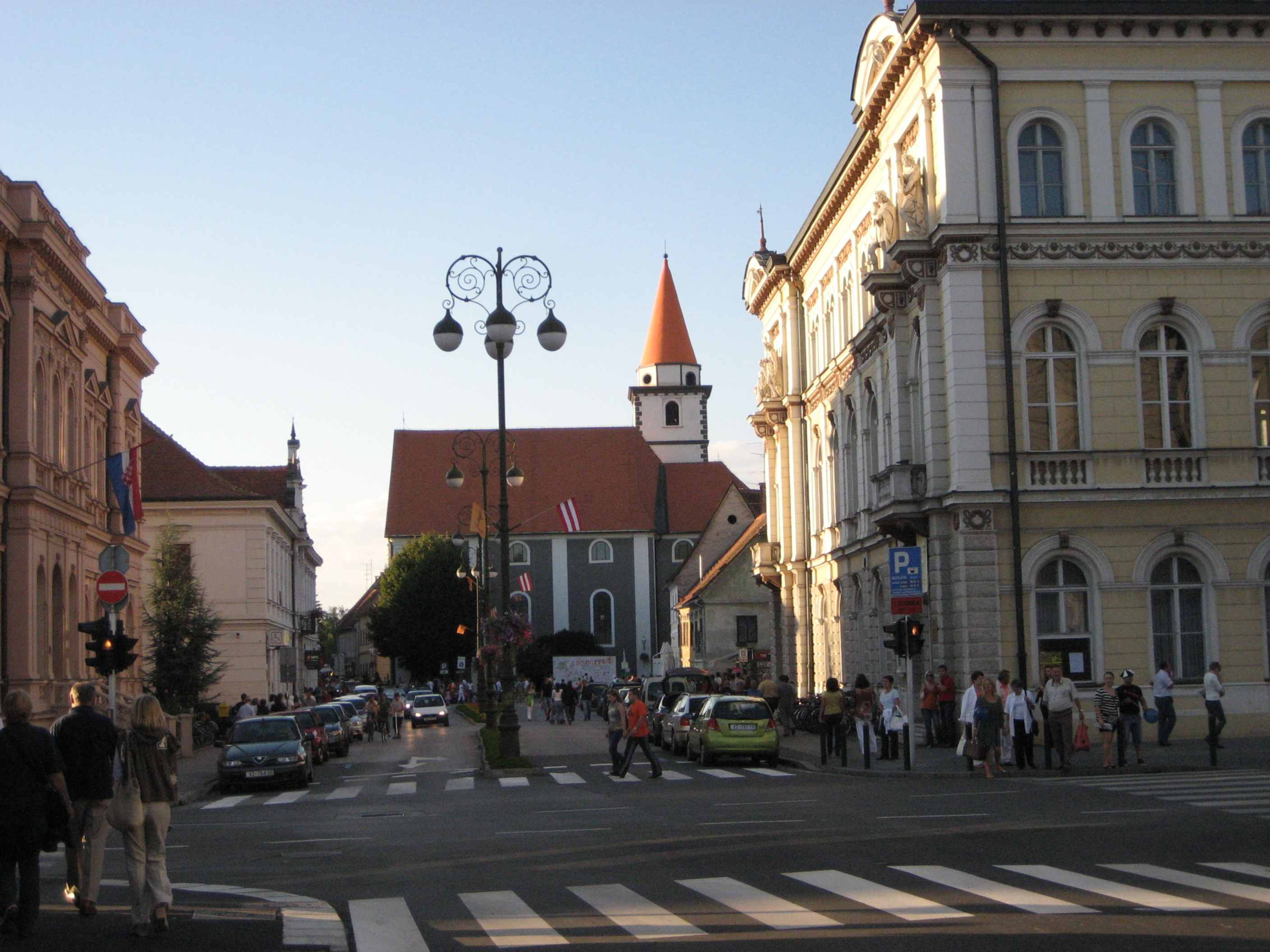 Varazdin-Croatia